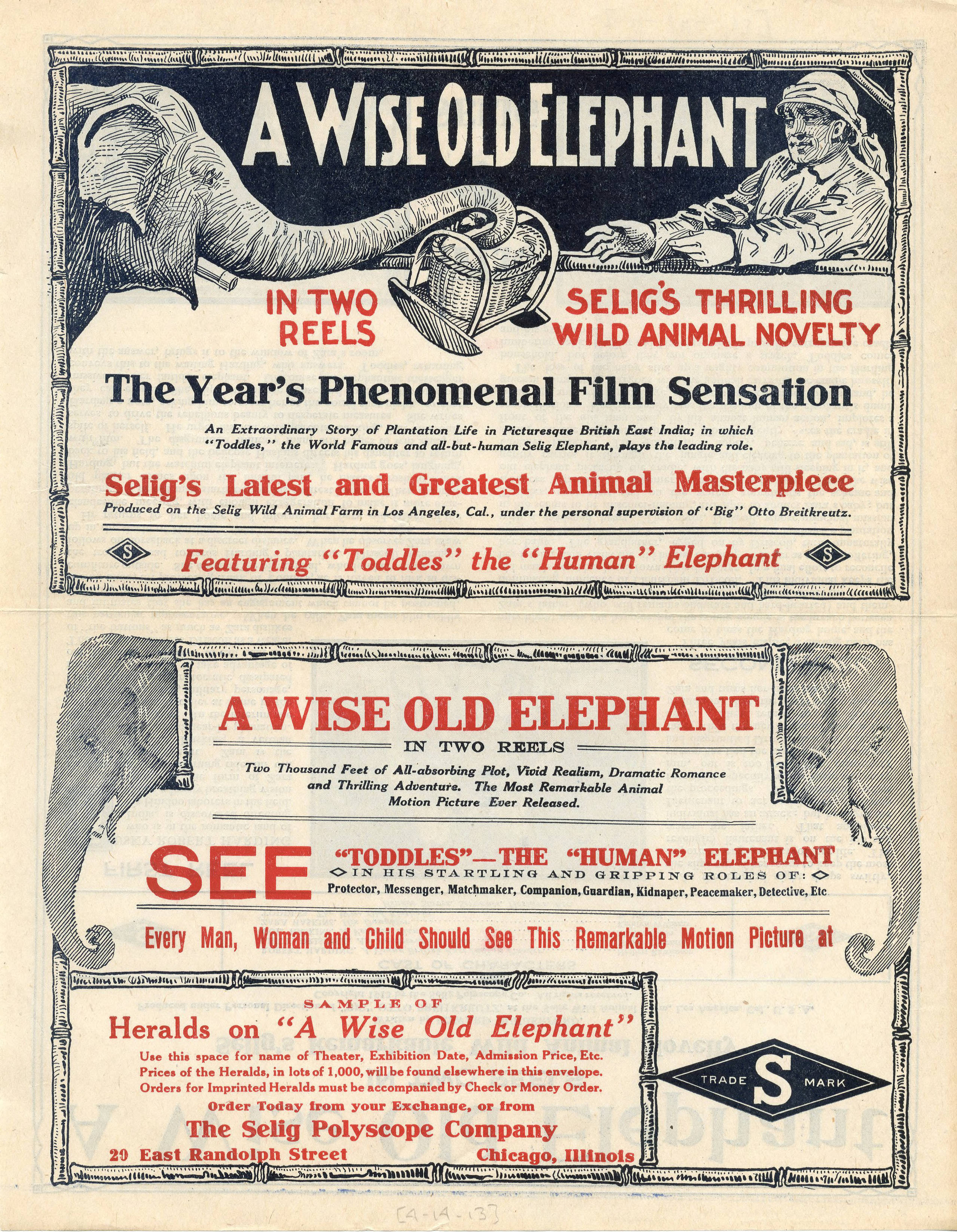 Release flier for A WISE OLD ELEPHANT, 1913 (Page 1)